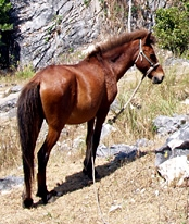 Timorpony